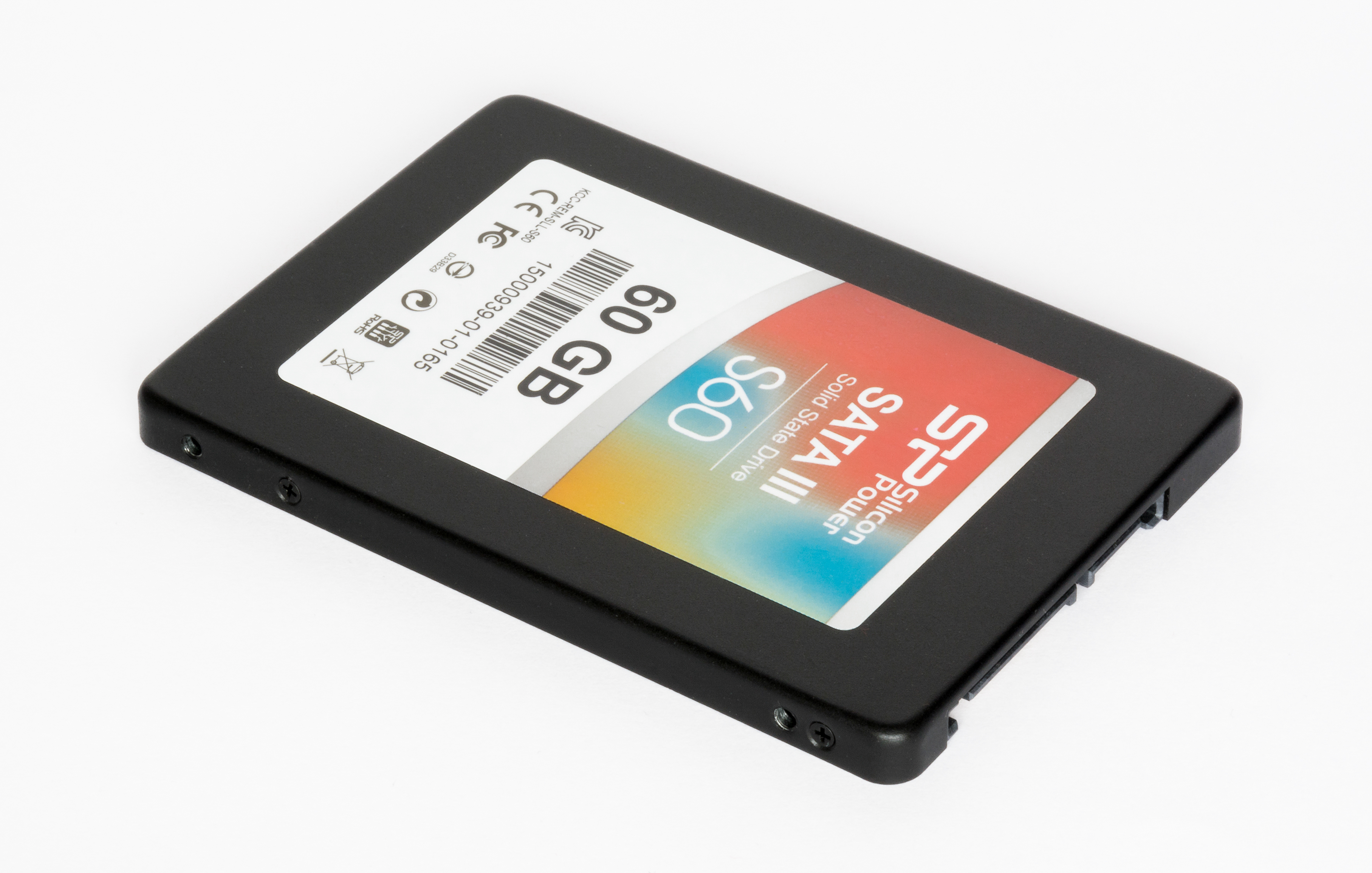 SSD Silicon Power S60 60GB